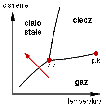 Deposition (phase transition)